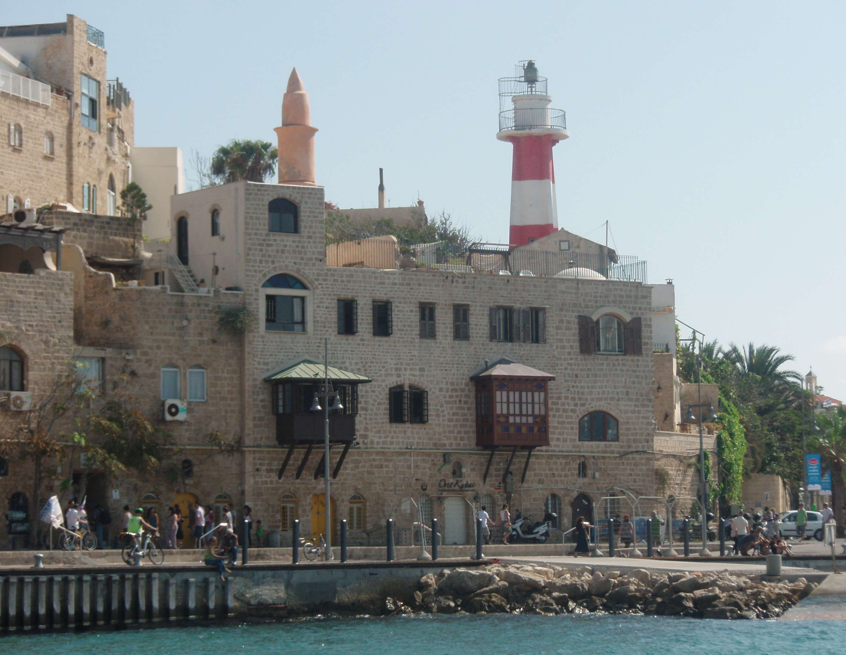 Jaffa, Israel.